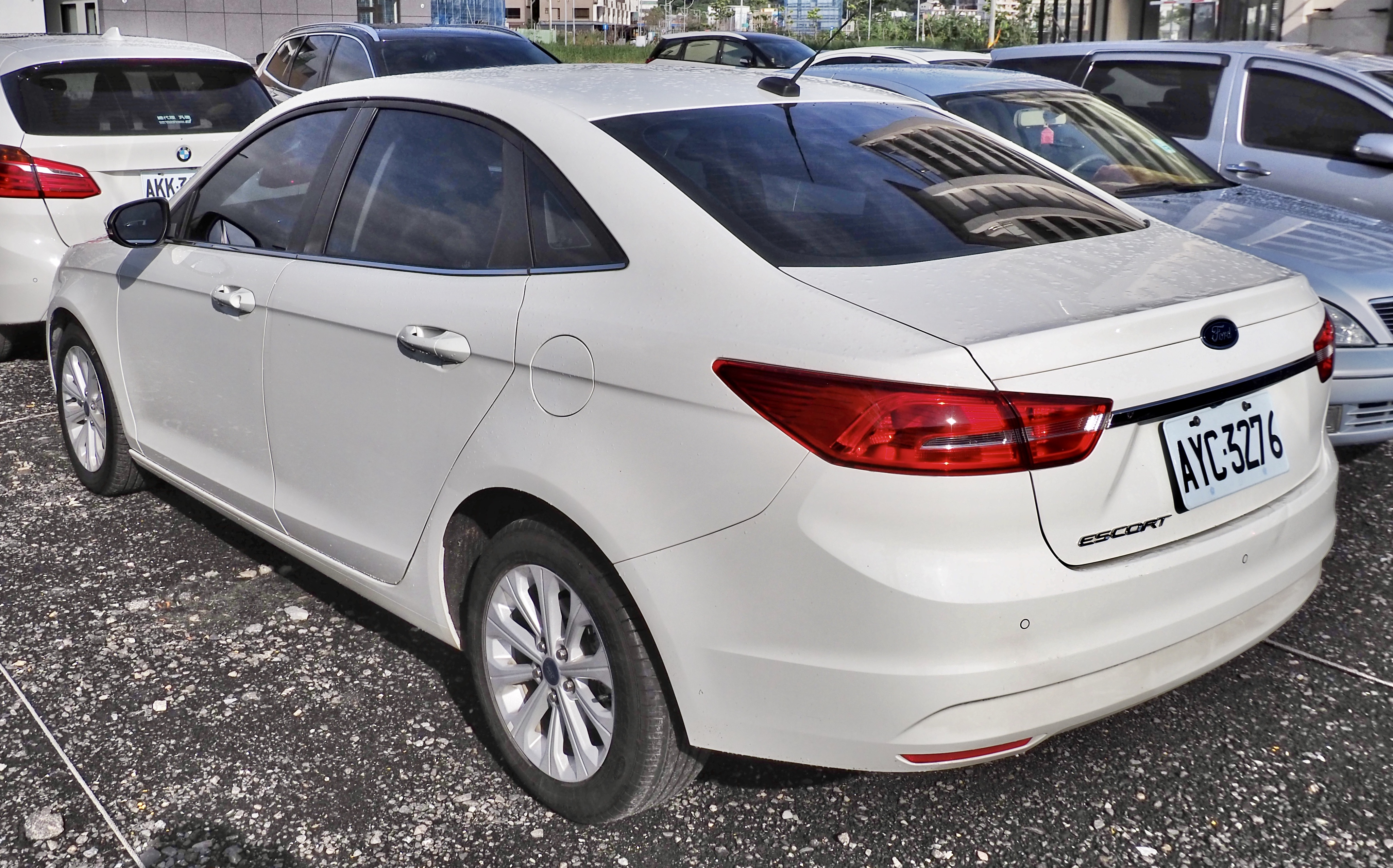 A 2015 Ford Lio Ho Escort photographed in Toucheng Township, Yilan County, Taiwan.